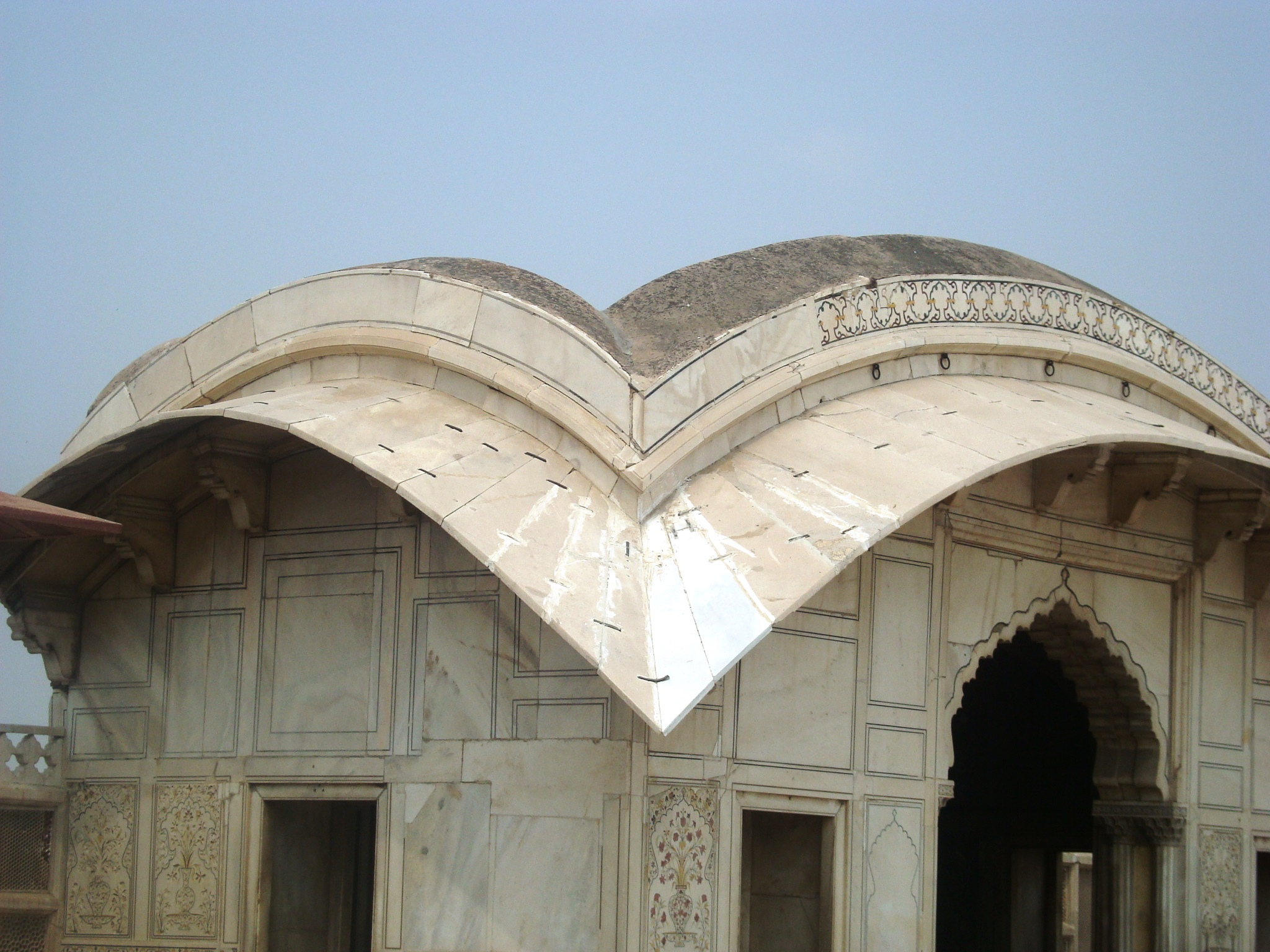 Lahore Fort complex (including Moti Masjid, Naulakha Pavilion, Sheesh Mahal and others) This is a photo of a monument in Pakistan identified as the PB-67